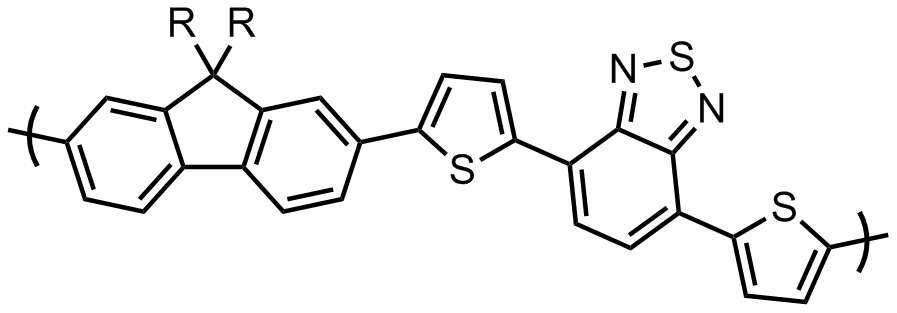 this is the structure of a low bandgap polyfluorene derivative